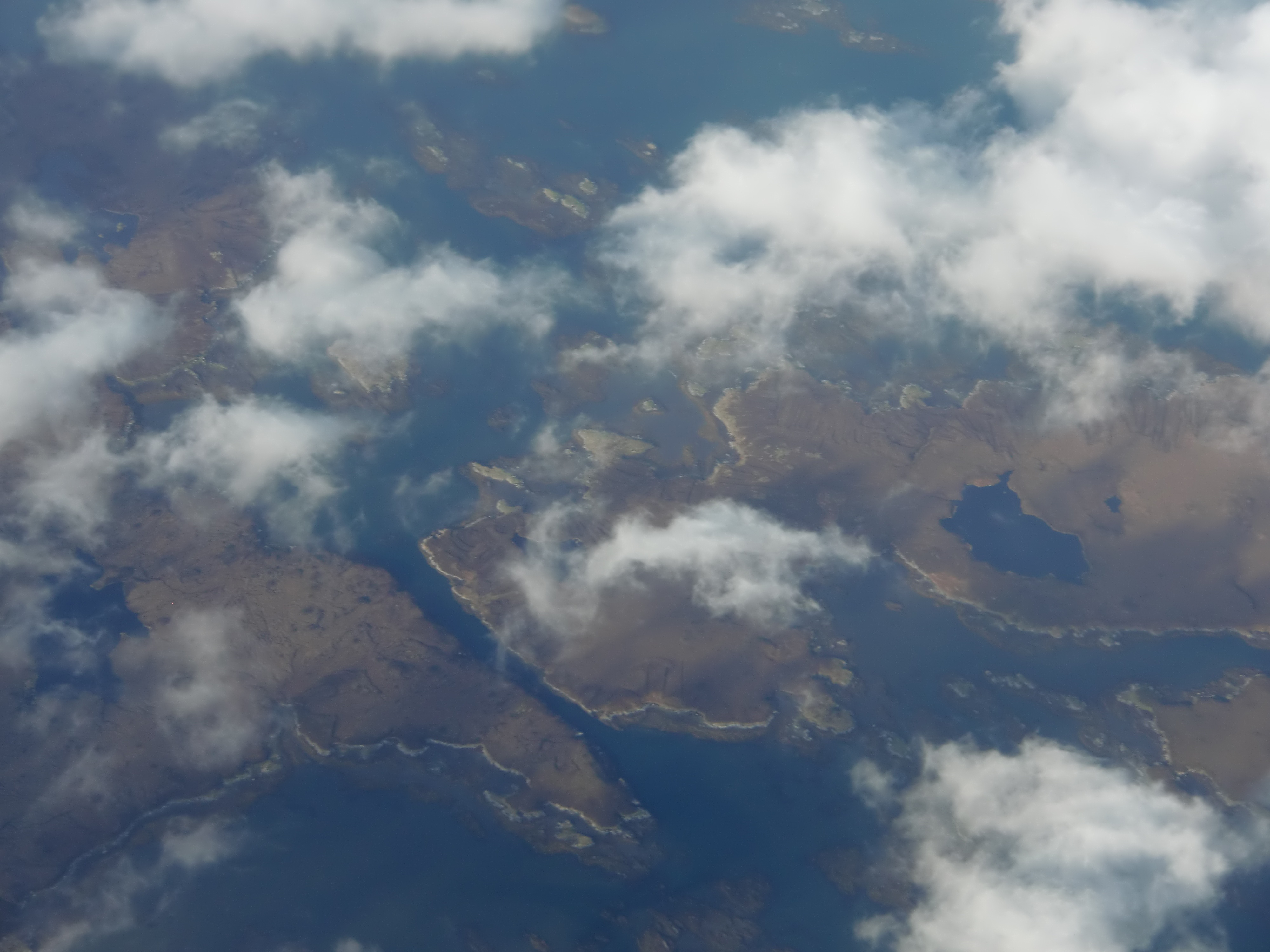 Stromay (Sromaigh) in the Outer Hebrides from the air.